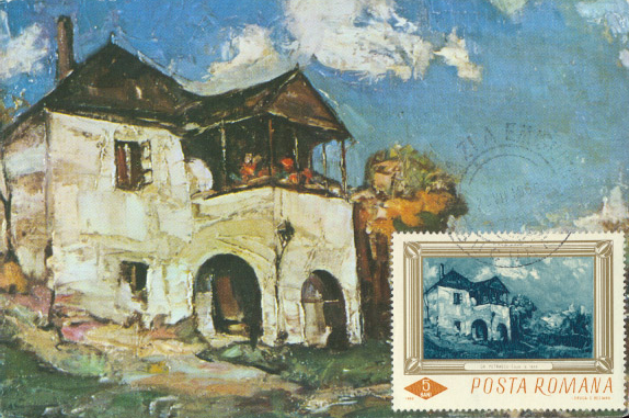 Country house by Gheorghe Petrascu